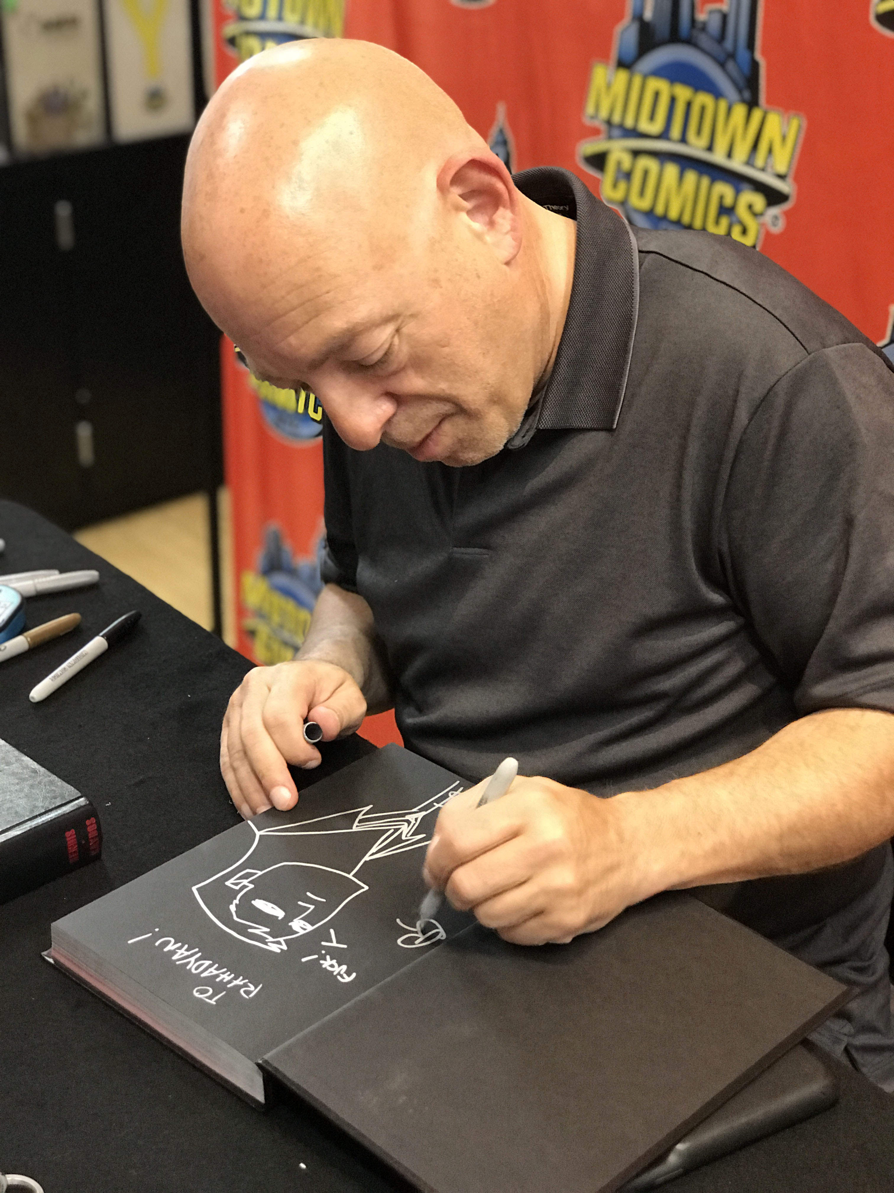 Comics writer Brian Michael Bendis at a July 24, 2019 open book signing at Midtown Comics Downtown in Lower Manhattan. In the photo, Bendis is sketching a image of the character Christian Walker in a copy of Powers: The Definitive Collection, a hardcopy compilation of his superhero police procedural series. This photo was created by Luigi Novi. It is not in the public domain, and use of this file outside of the licensing terms is a copyright violation.